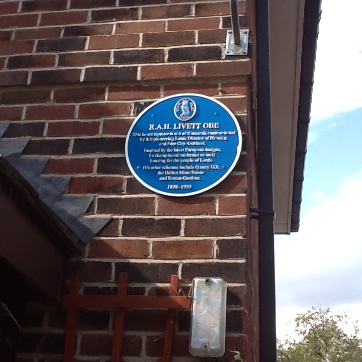 Leeds Civic Trust plaque for R A H Livett